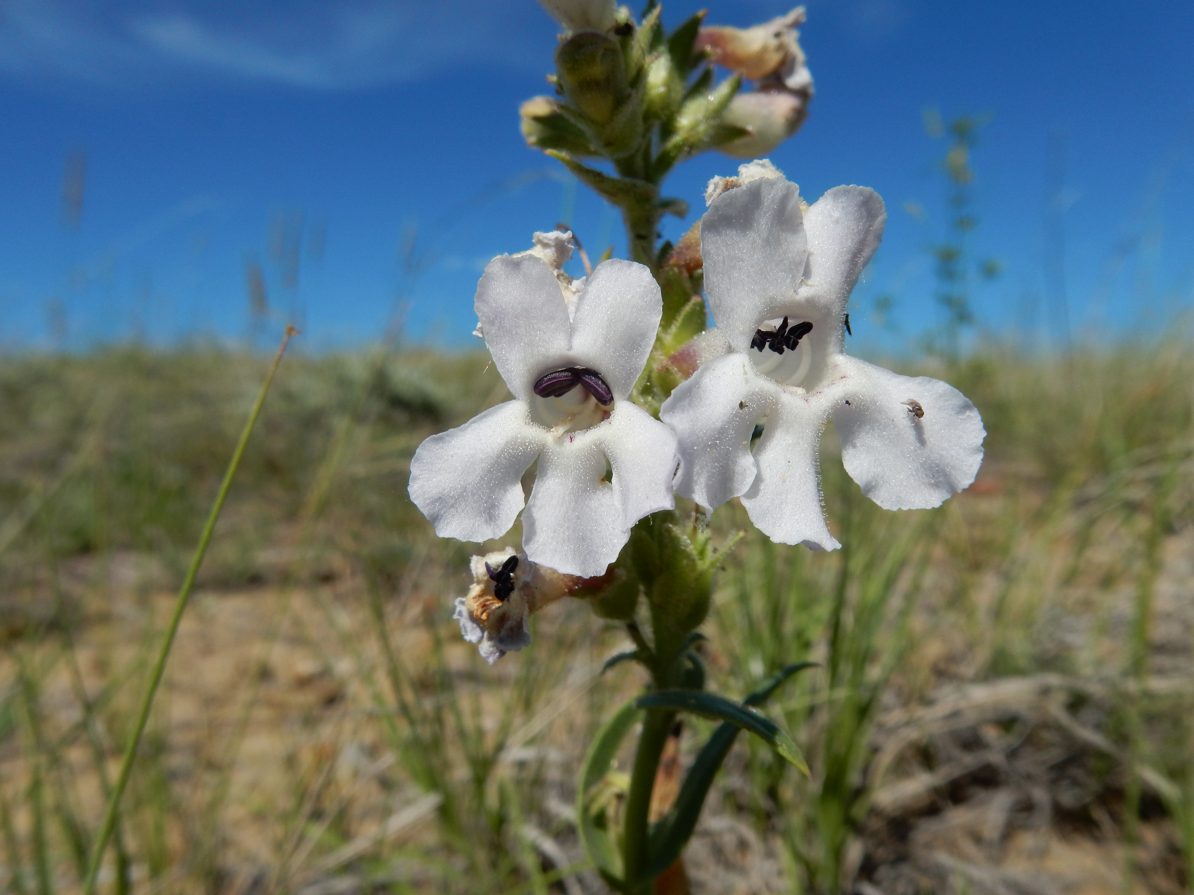 A very attractive white-flowered penstemon common to the low elevation sagebrush steppe in eastern Montana. The combination of glabrous anthers, white corollas, basal leaves with entire margins, glandular hairs, and open dry low elevation habitat is distinctive of this species.